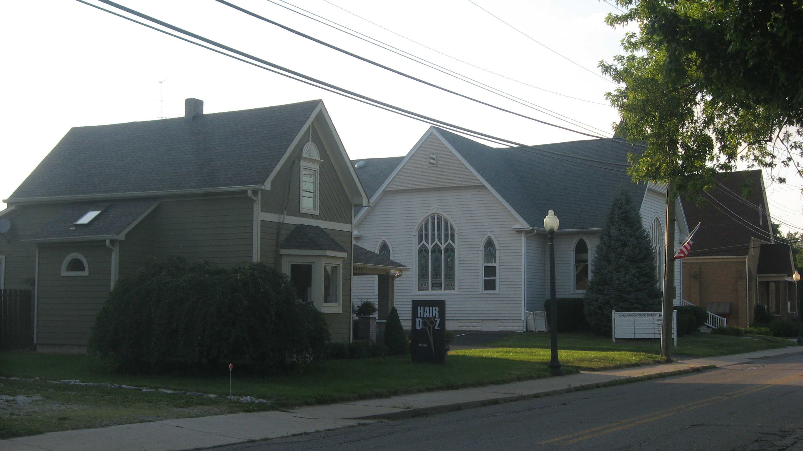 A house and a former church on the western side of the 6400 block of Oaklandon Road in Lawrence, Indiana, United States. This block is part of the Oaklandon Historic District, a historic district that is listed on the National Register of Historic Places.